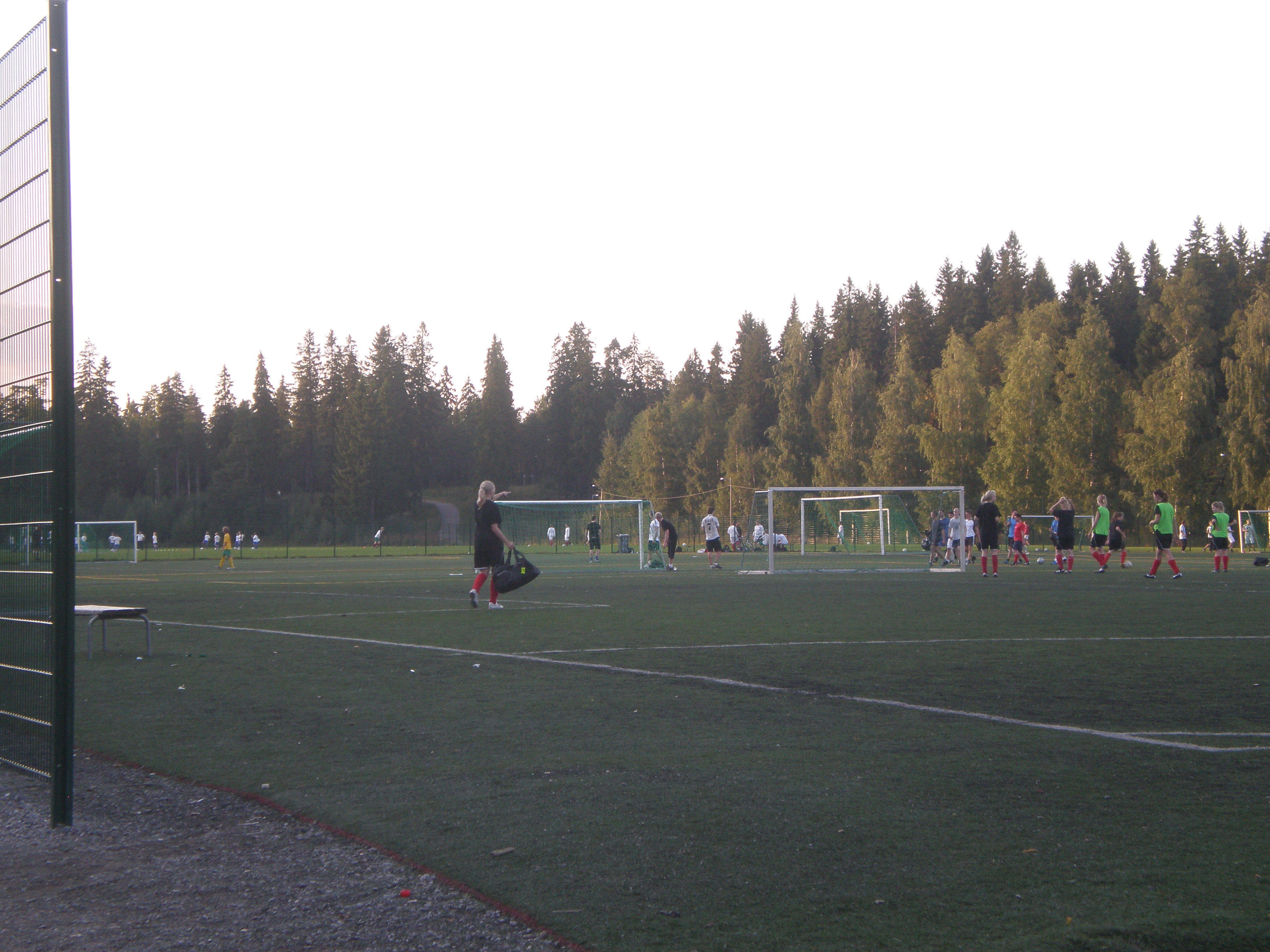 Soccer at Kauppi sport park